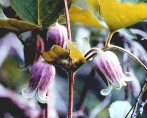 Clematis morefieldii USFWS photo, no copyright, no author info